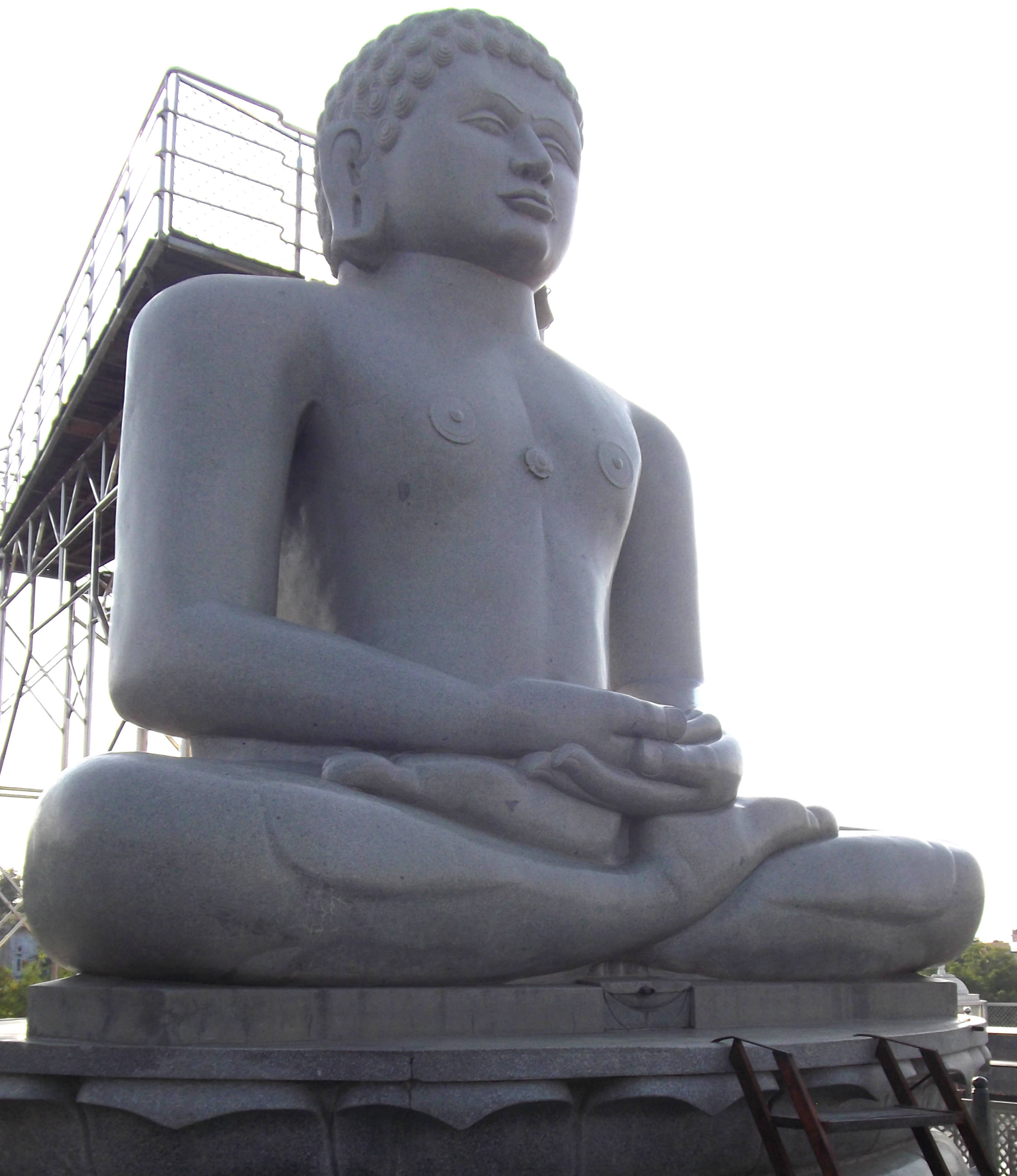 Jinendra (Tirthankara), meditating - lotus position- upper portion. Photo: Chandragiri Vatika near Tijara jain temple, Rajasthan